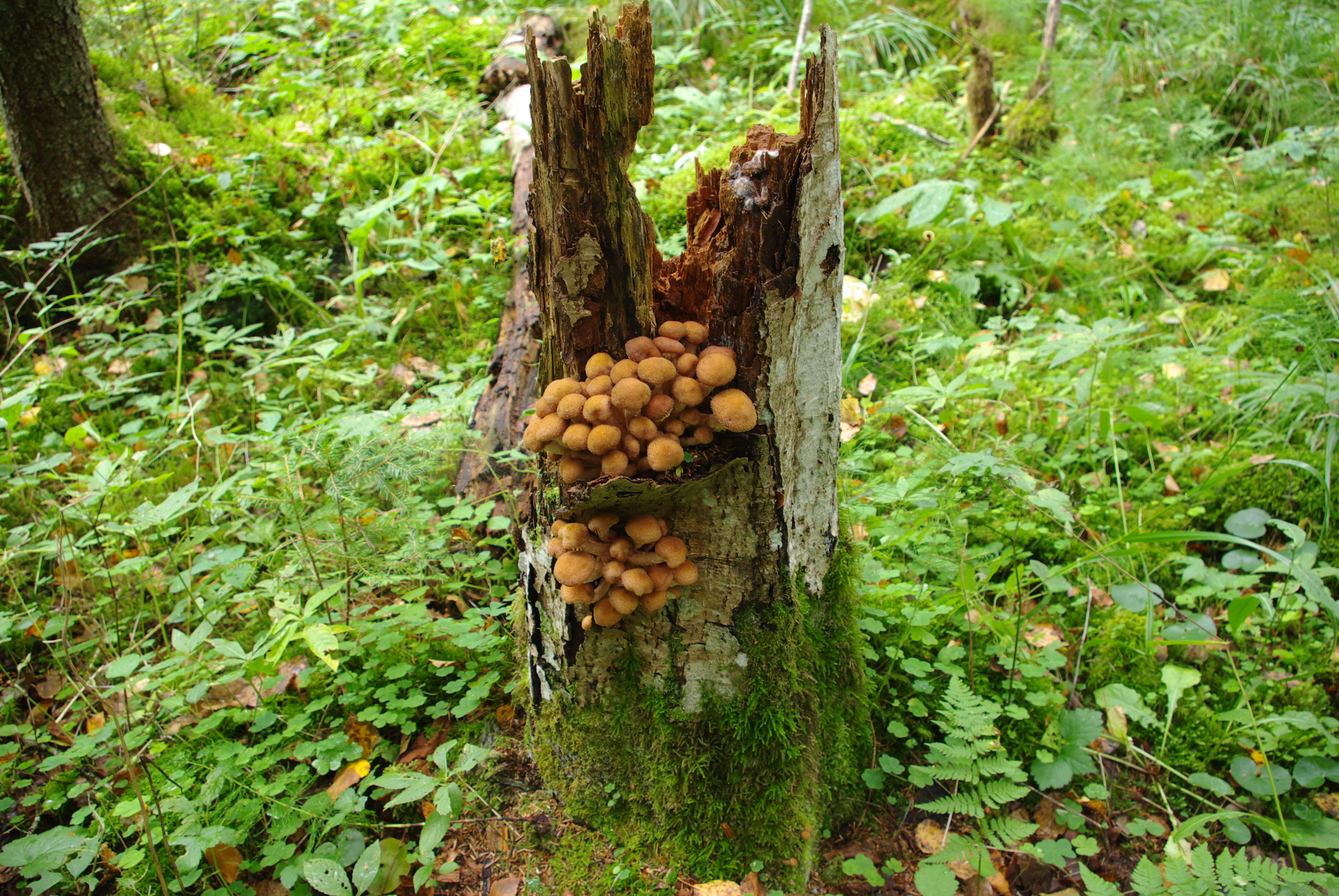 Honey fungus (Armillaria ostoyae) on the death tree